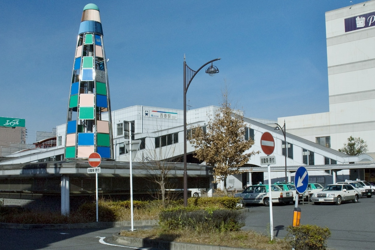 Meitetsu Inuyama line Nishiharu station east